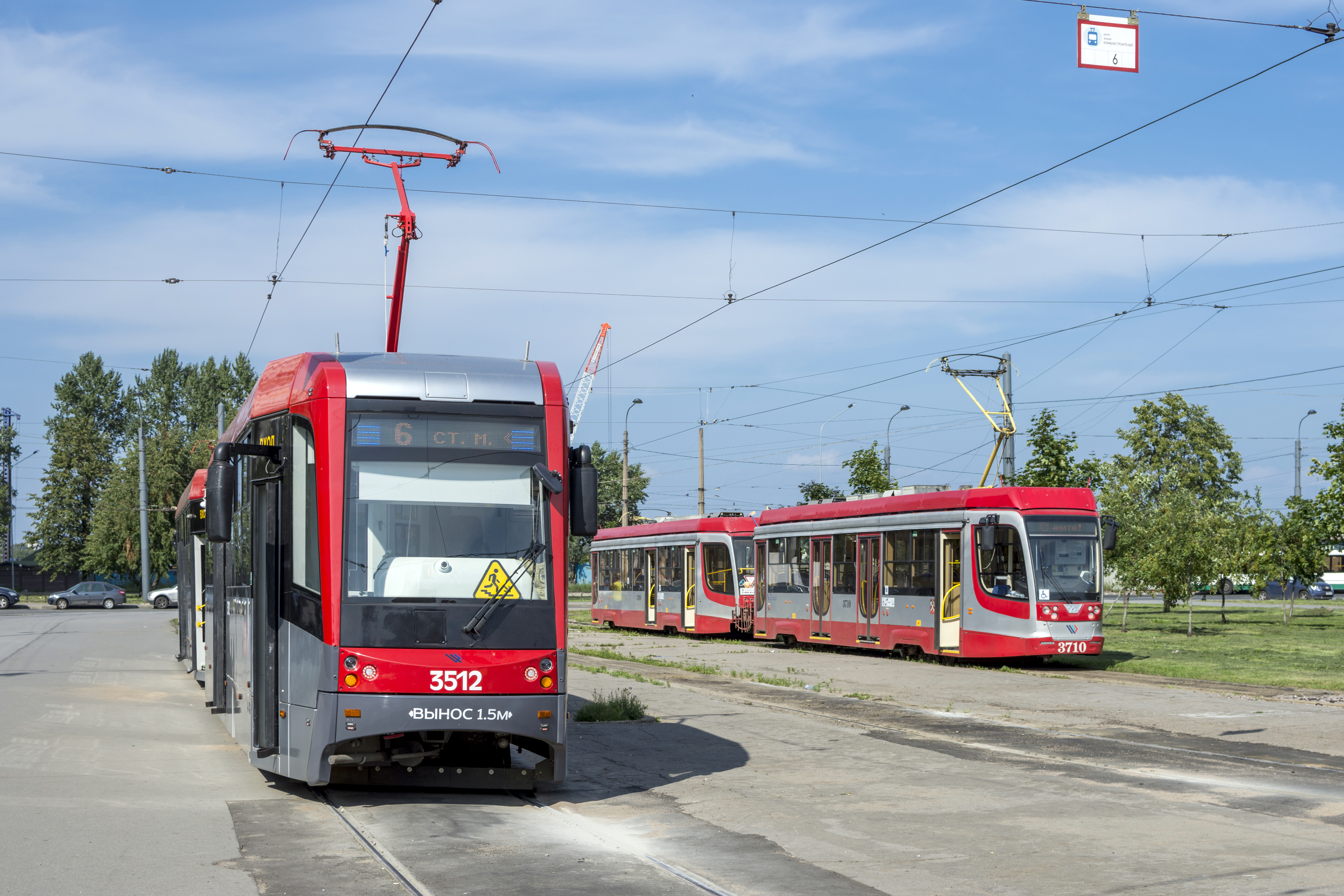 Trams LM-68M3 and 71-623-03 in Saint Petersburg